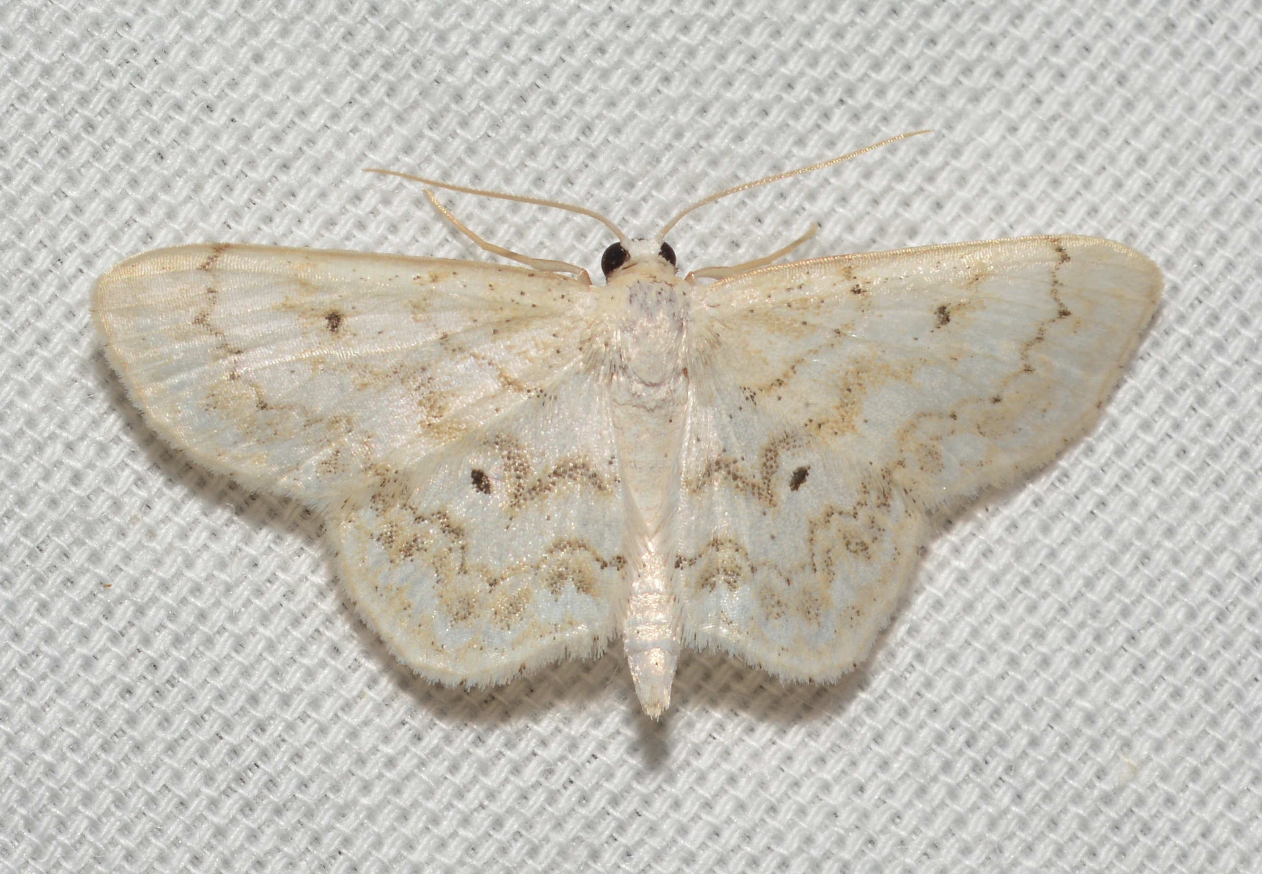 Cuivre River State Park 7/8/17 Troy, MO Moth Night